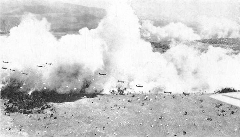 Dwarfed by and silhouetted against clouds of smoke (created to provide cover), C-47 transport planes from the US Army Air Forces drop a battalion of the U.S. 503rd Parachute Regiment at Nadzab. A battalion dropped minutes earlier is landing in the foreground. General Vasey was in the plane from which the photograph was taken